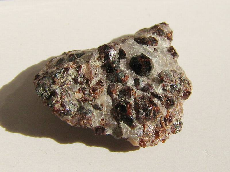 Specimen showing calderite garnet crystals on matrix originating from Litzdalen, Sunndal Norway (width approx. 2 cm)